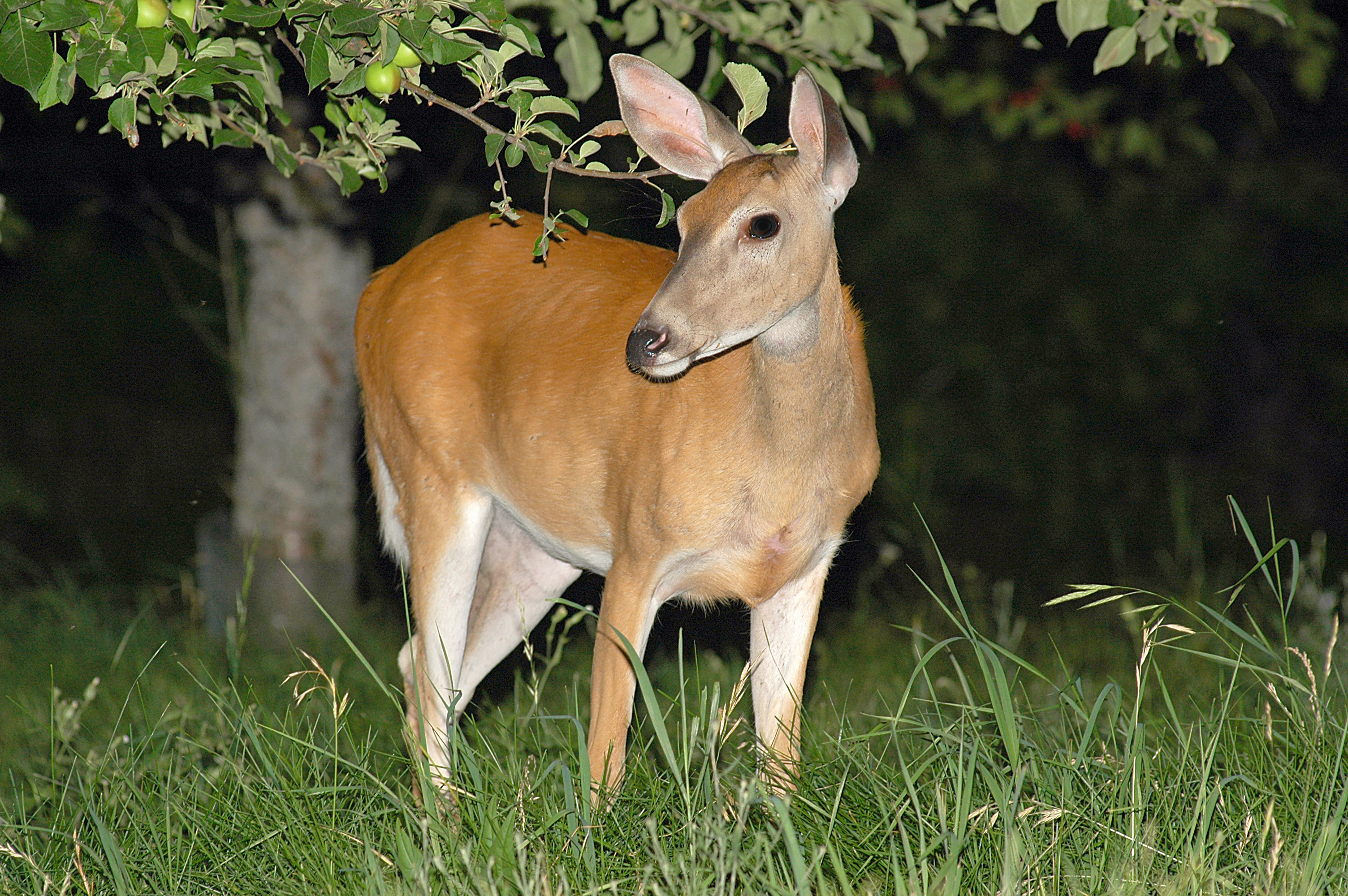 Night shot of whitetail deer eating.